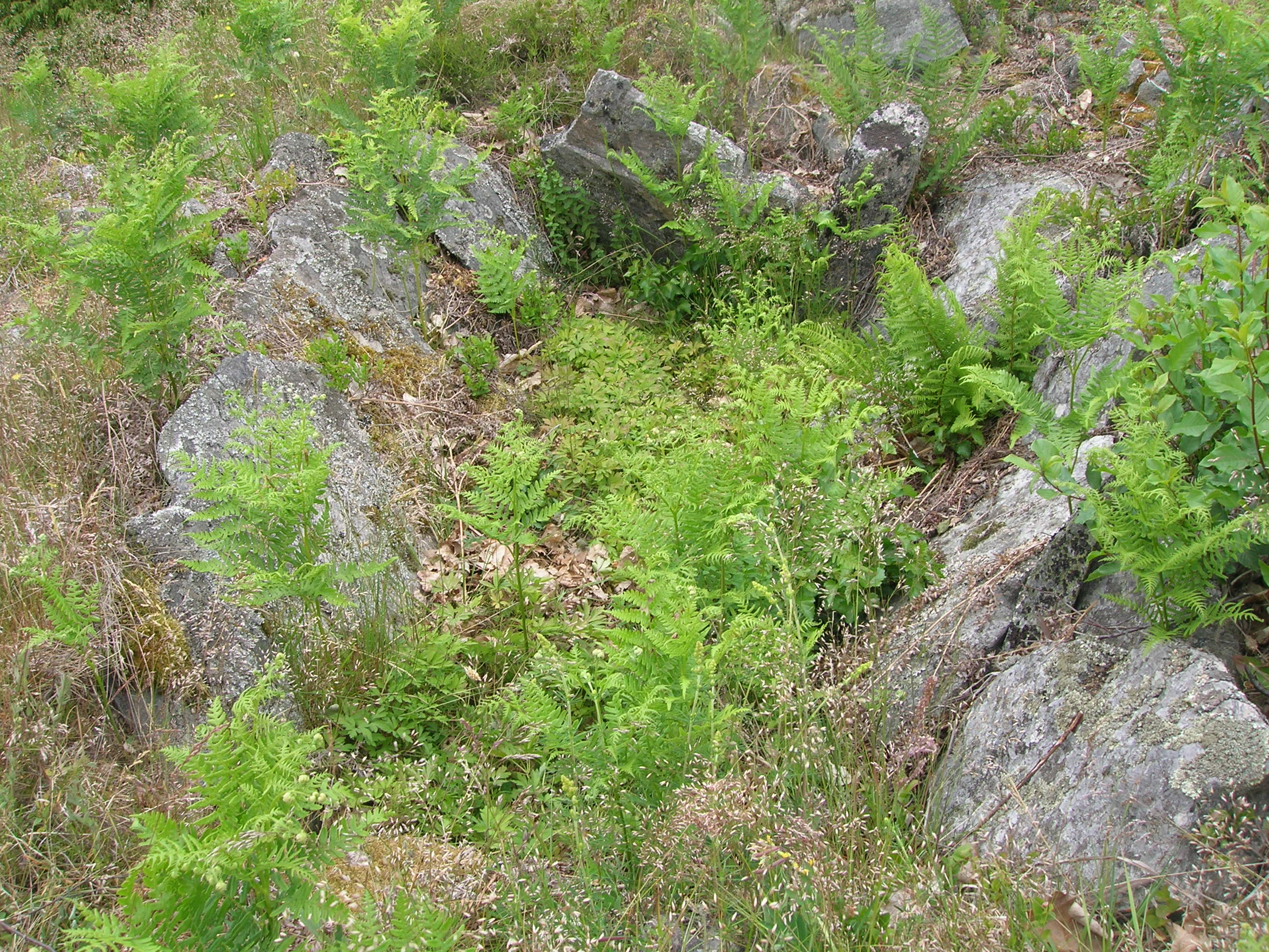 Photo of cist in the village of Bösebo, Sweden. Position: 57º 17' 4.70" N, 15º 42' 1.39" E